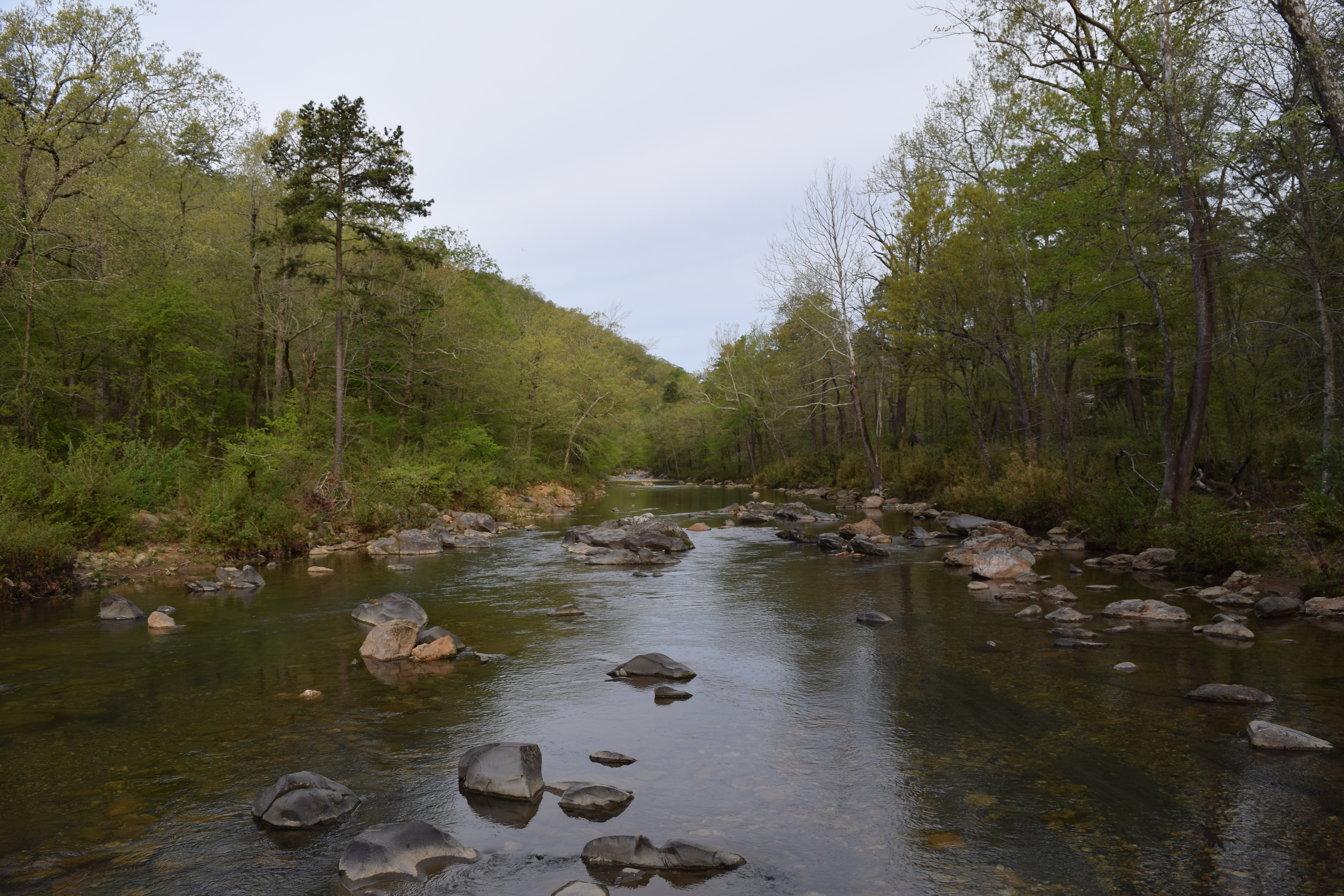 The Little Missouri River viewed from the bridge to the Albert Pike area of Ouachita National Forest, Arkansas.